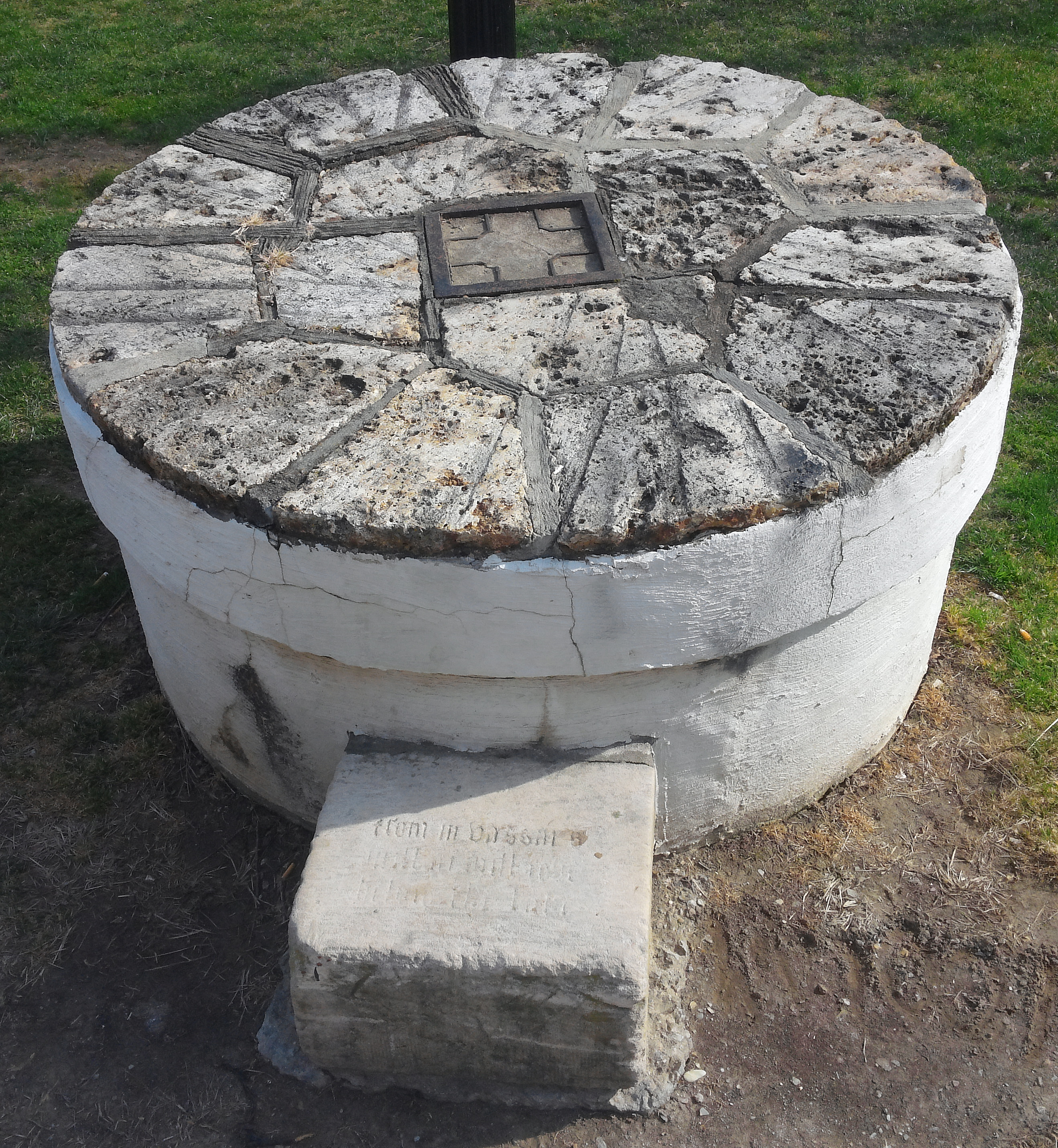 A millstone from a mill that once stood on the Fonteynkill, now secured in place in front of Rockefeller Hall on the campus of Vassar College in the town of Poughkeepsie, New York, US.